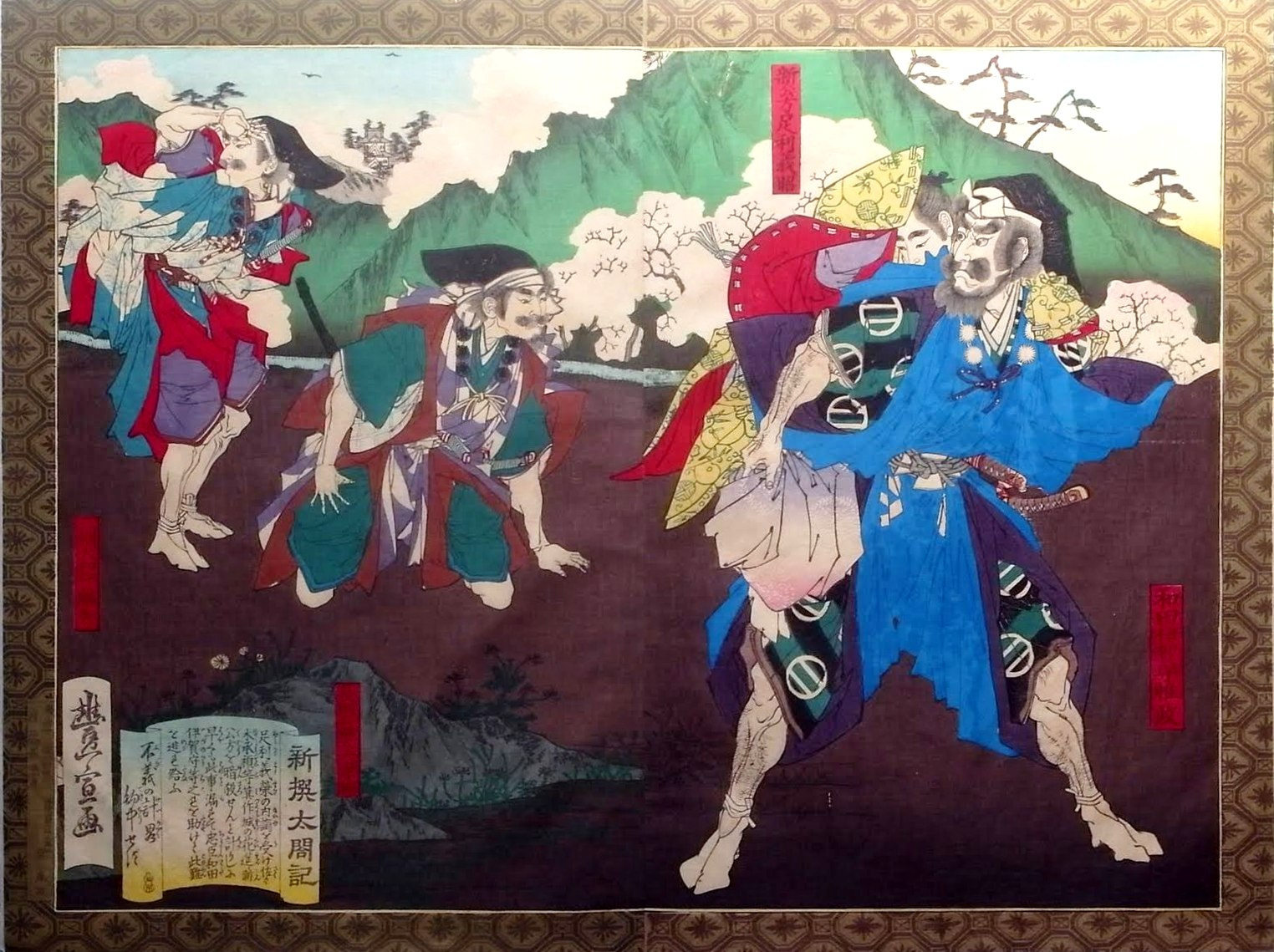 An ukiyo-e that Ashikaga Yoshiaki escapes with help of Wada Koremasa.